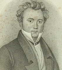 Richard Carlile, publisher. (9 December 1790 – 10 February 1843) was an important agitator for the establishment of universal suffrage and freedom of the press in the United Kingdom